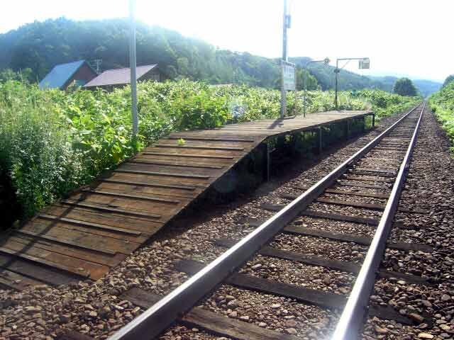 Hokusei Station platform